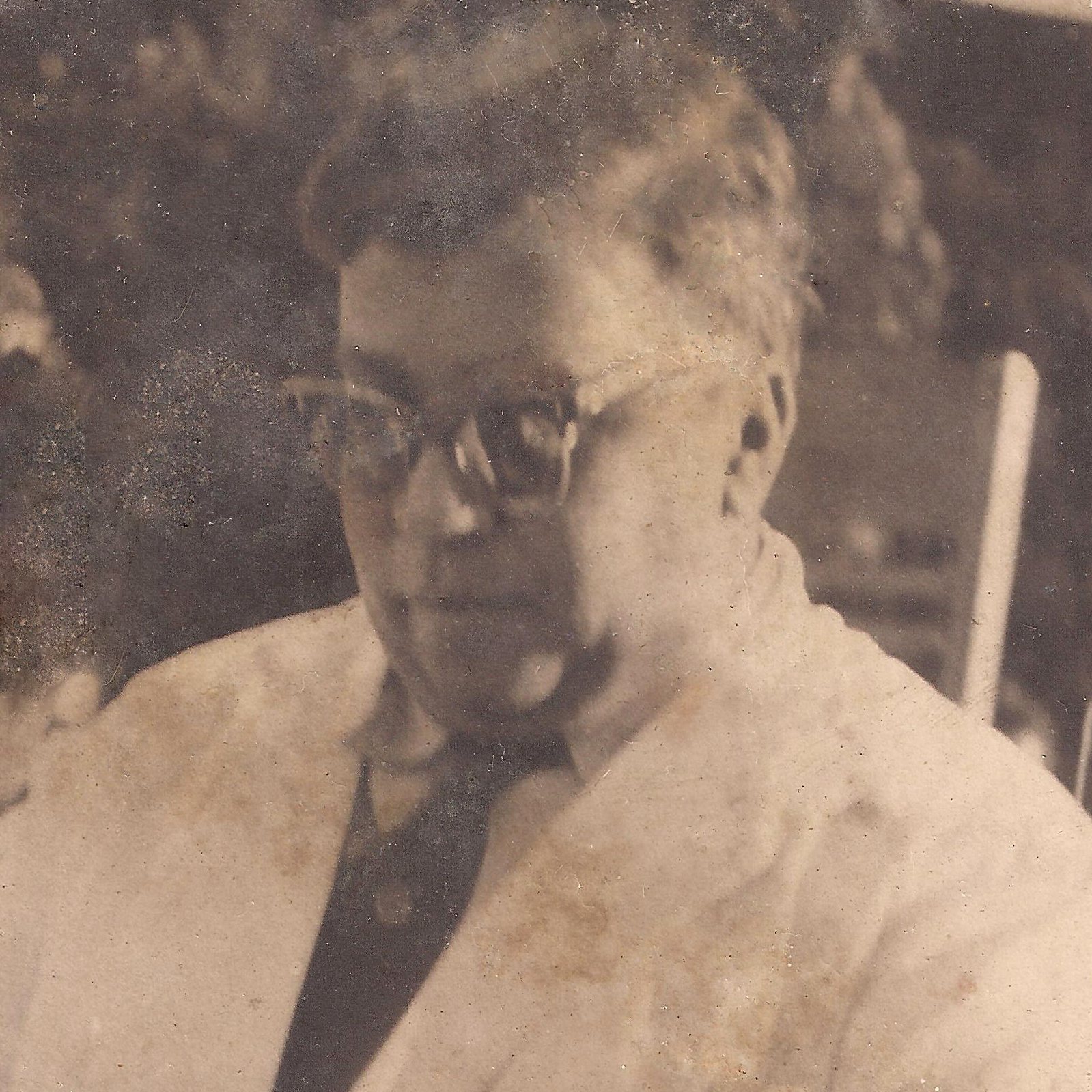 Edward Lionel Senanayaka in 1957.